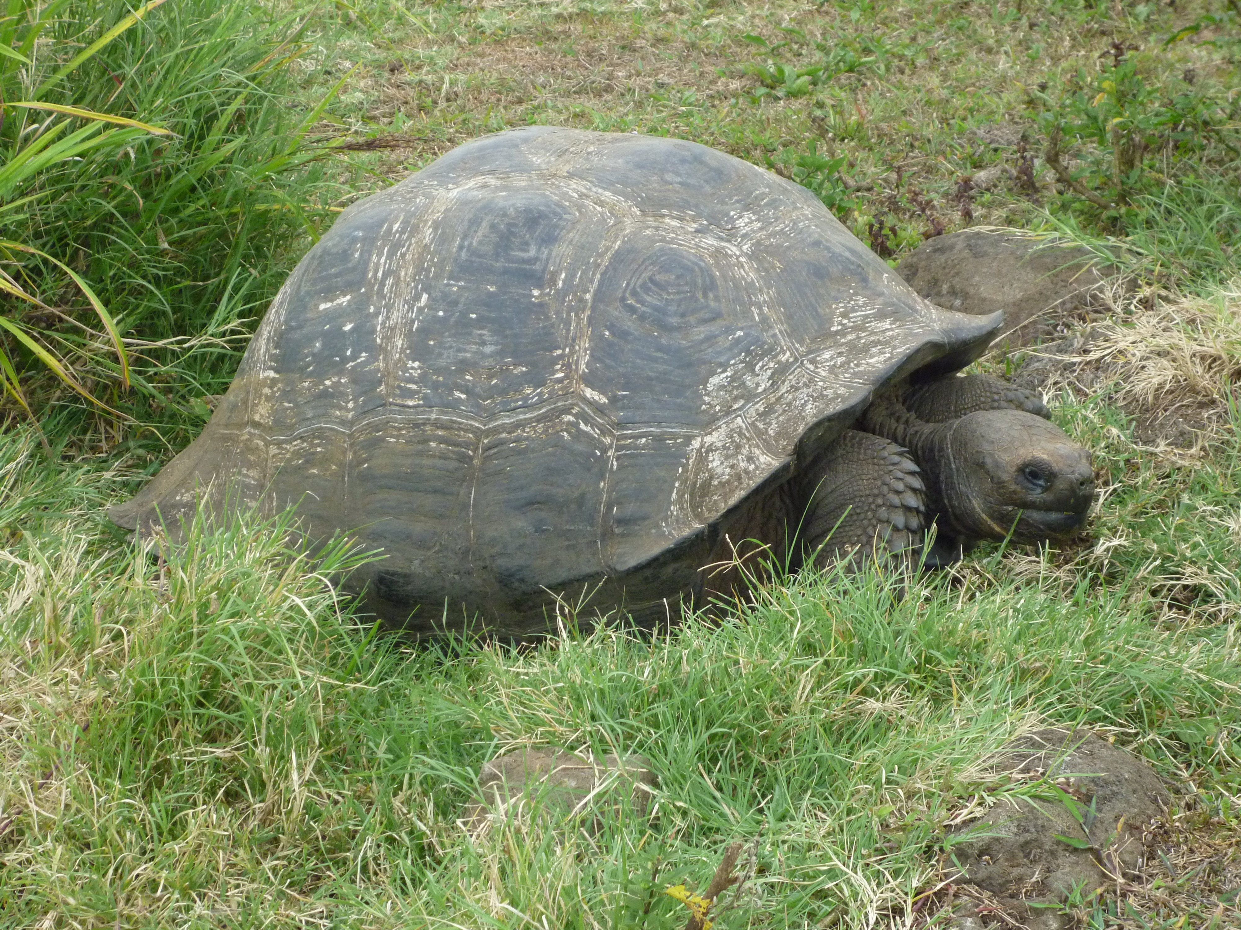 This is a photo that (Photographer, David Adam Kess) I took this photo on the Santa Cruz Island in the Galapagos of a World famous tortoise or Galápagos giant tortoise (Chelonoidis nigra). Below text is from Wikipedia that describes & gives a bit of history and background to the (Chelonoidis nigra). The Galápagos tortoise or Galápagos giant tortoise (Chelonoidis nigra) is the largest living species of tortoise and the 14th-heaviest living reptile. The Galápagos tortoise or Galápagos giant tortoise (Chelonoidis nigra) is the largest living species of tortoise and 10th-heaviest living reptile, reaching weights of over 400 kg (880 lb) and lengths of over 1.8 meters (5.9 ft). With life spans in the wild of over 100 years, it is one of the longest-lived vertebrates. A captive individual lived at least 170 years. The tortoise is native to seven of the Galápagos Islands, a volcanic archipelago about 1,000 km (620 mi) west of the Ecuadorian mainland. Spanish explorers, who discovered the islands in the 16th century, named them after the Spanish galápago, meaning tortoise. Shell size and shape vary between populations. On islands with humid highlands, the tortoises are larger, with domed shells and short necks - on islands with dry lowlands, the tortoises are smaller, with "saddleback" shells and long necks. Charles Darwin's observations of these differences on the second voyage of the Beagle in 1835, contributed to the development of his theory of evolution.